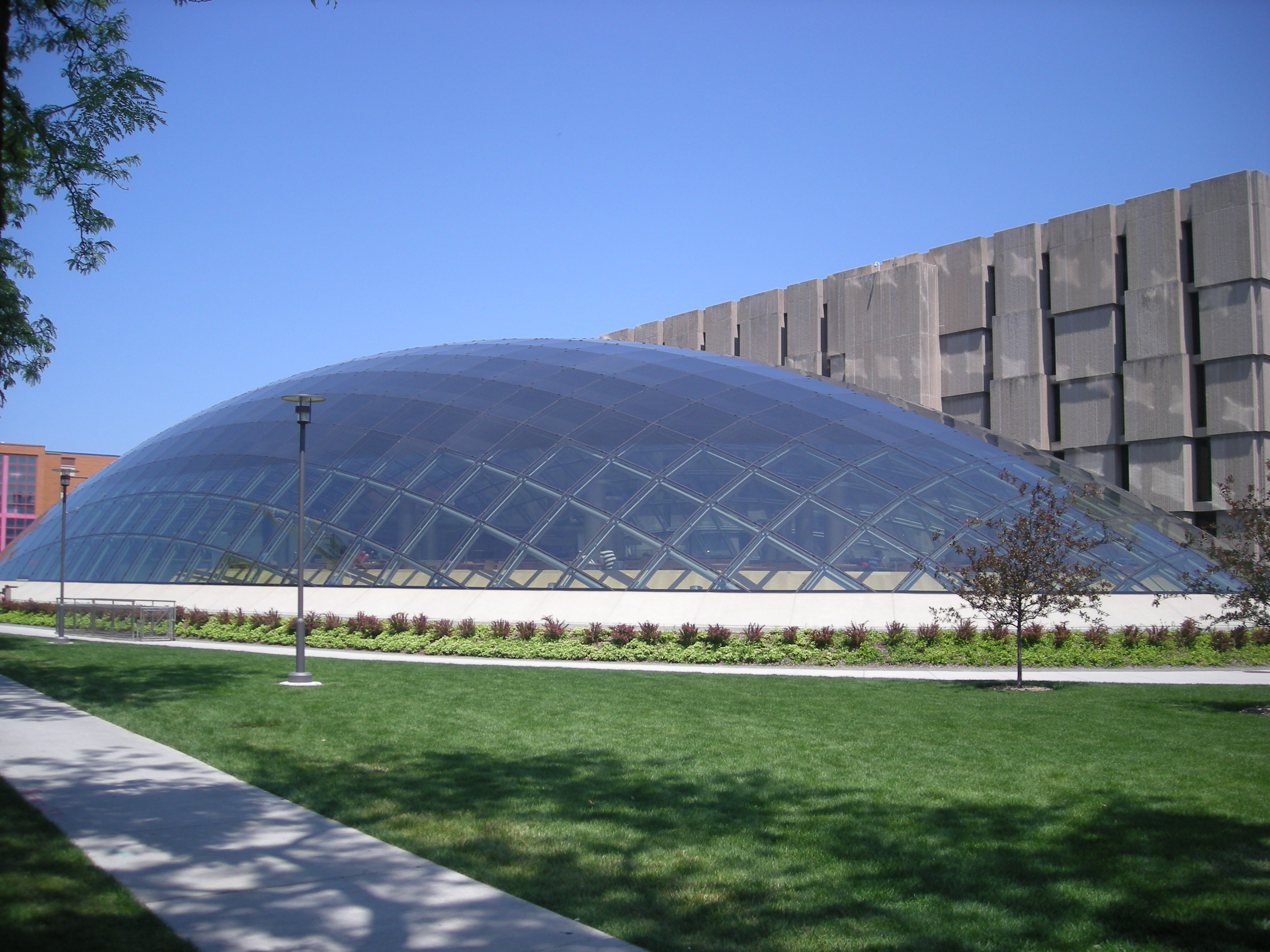 The Joe and Rika Mansueto Library on the campus of the University of Chicago in Chicago, Illinois (United States).